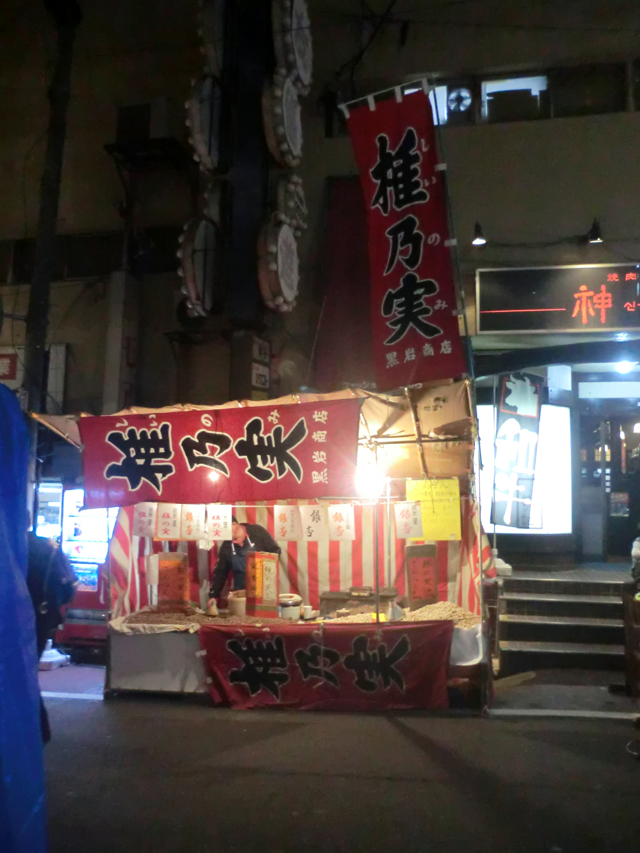 Ennichi selling nuts of castanopsis(Shii no mi) in Kigyousai(Birthday Festival of Yawata Steel Works held in Kitakyushu,Fukuoka,Japan).